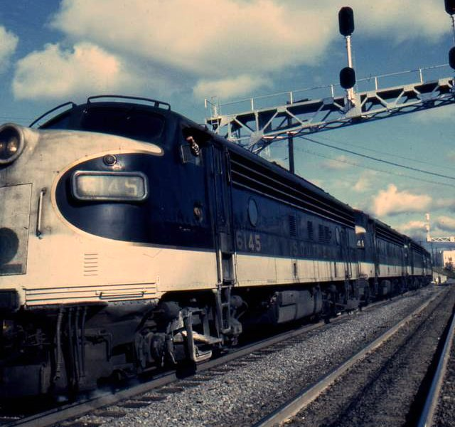 Southern Railway's Piedmont Limited train being lead by a pair of EMD FP7s in 1974.